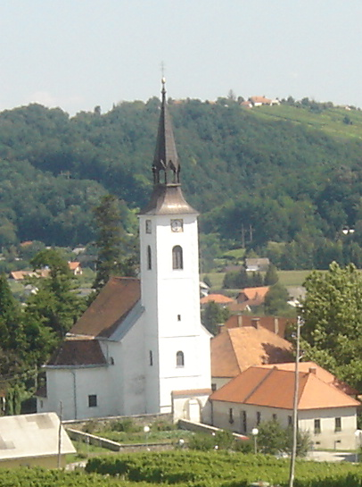 Picture of Zavrč in August 2005